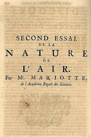 Title page of "Discours de la nature de l'air, de la végétation des plantes" (1676) re-edition from 1717, by French physicist Edme Mariotte (1620-1684)